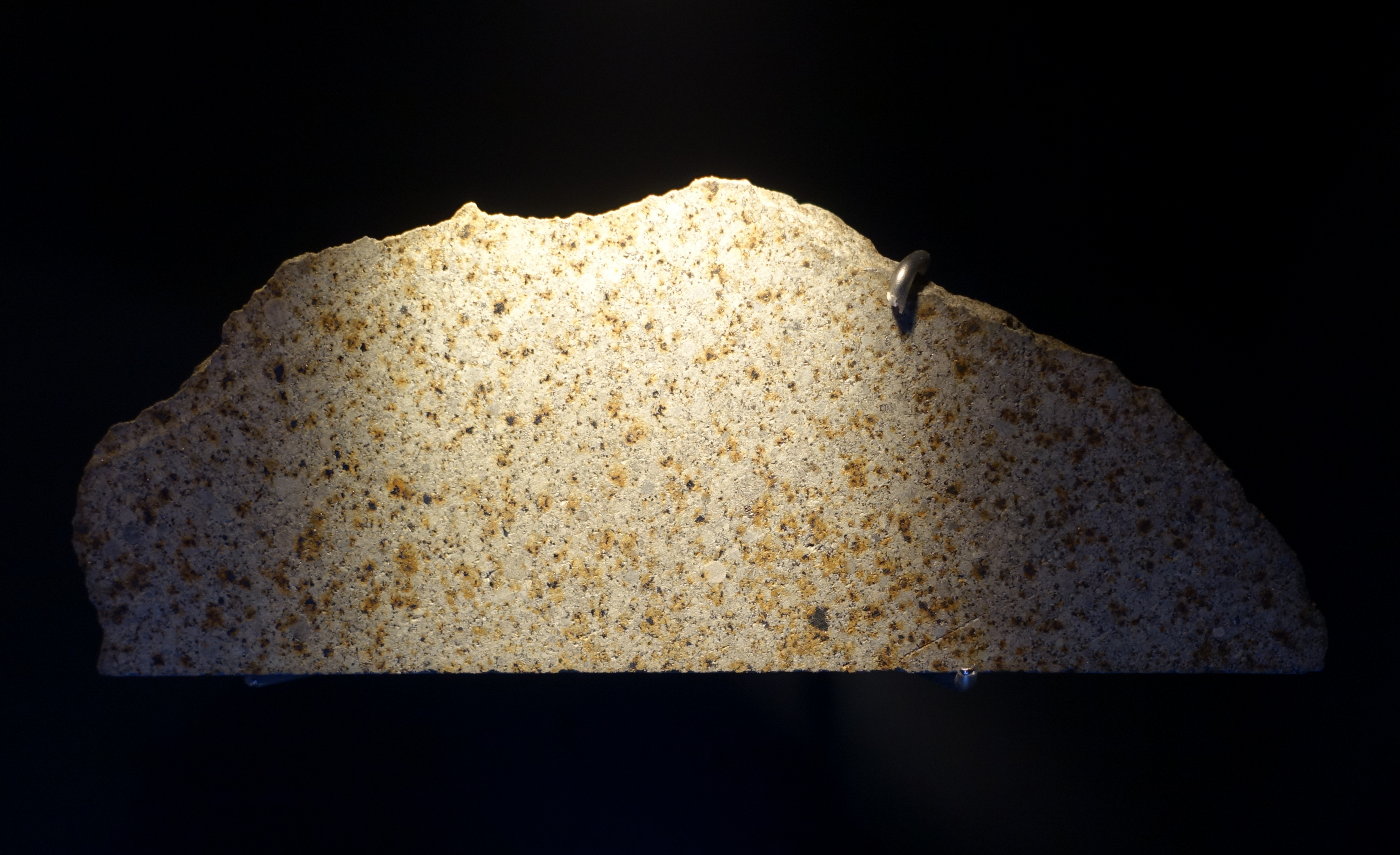 Exhibit in Museum für Naturkunde, Berlin, Germany.